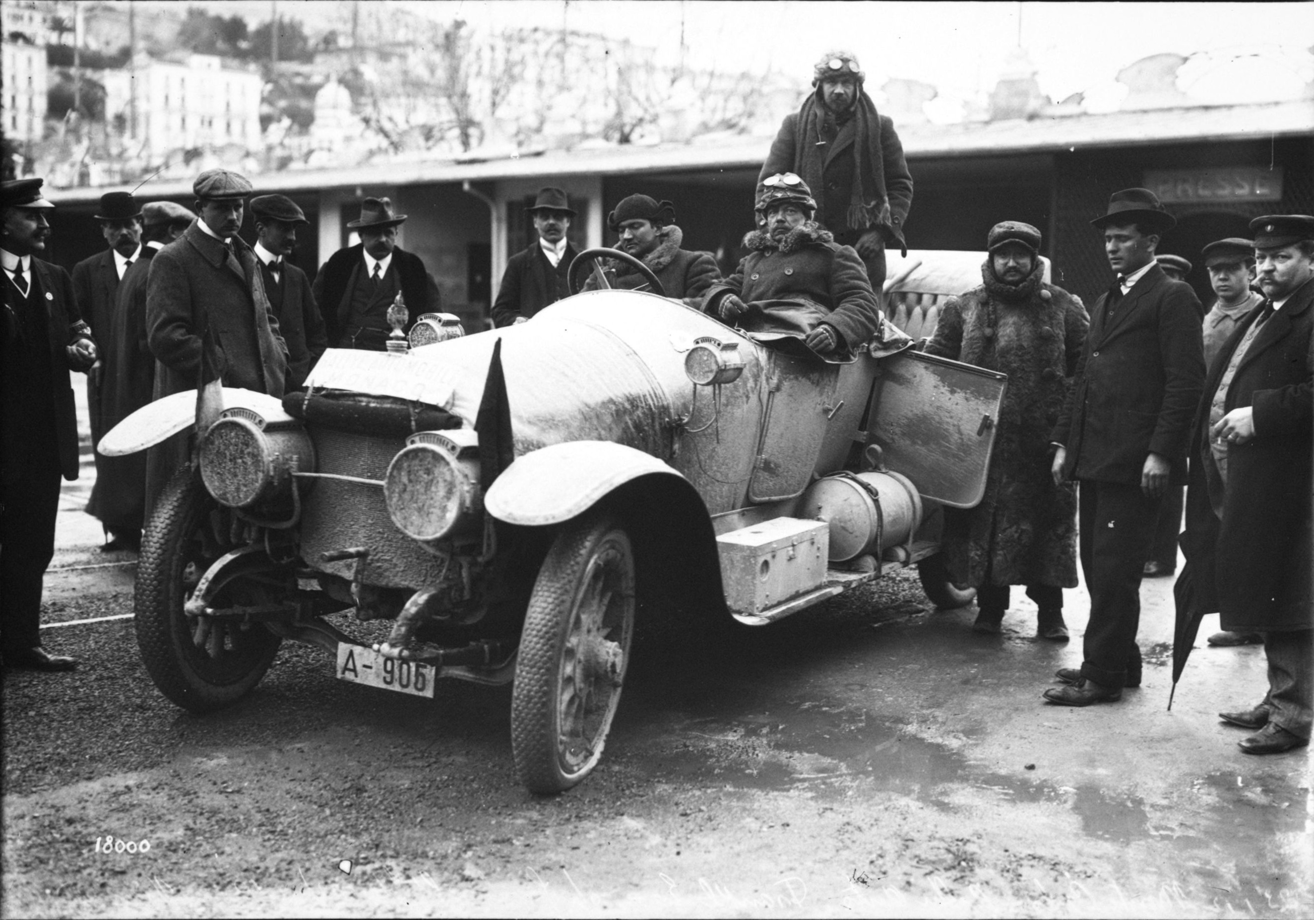 Entry #8 in the 1912 Rallye Monte Carlo was Gräf & Stift 28-32HP driven by Frankel Egon. He ended in 15th place overall.[1]